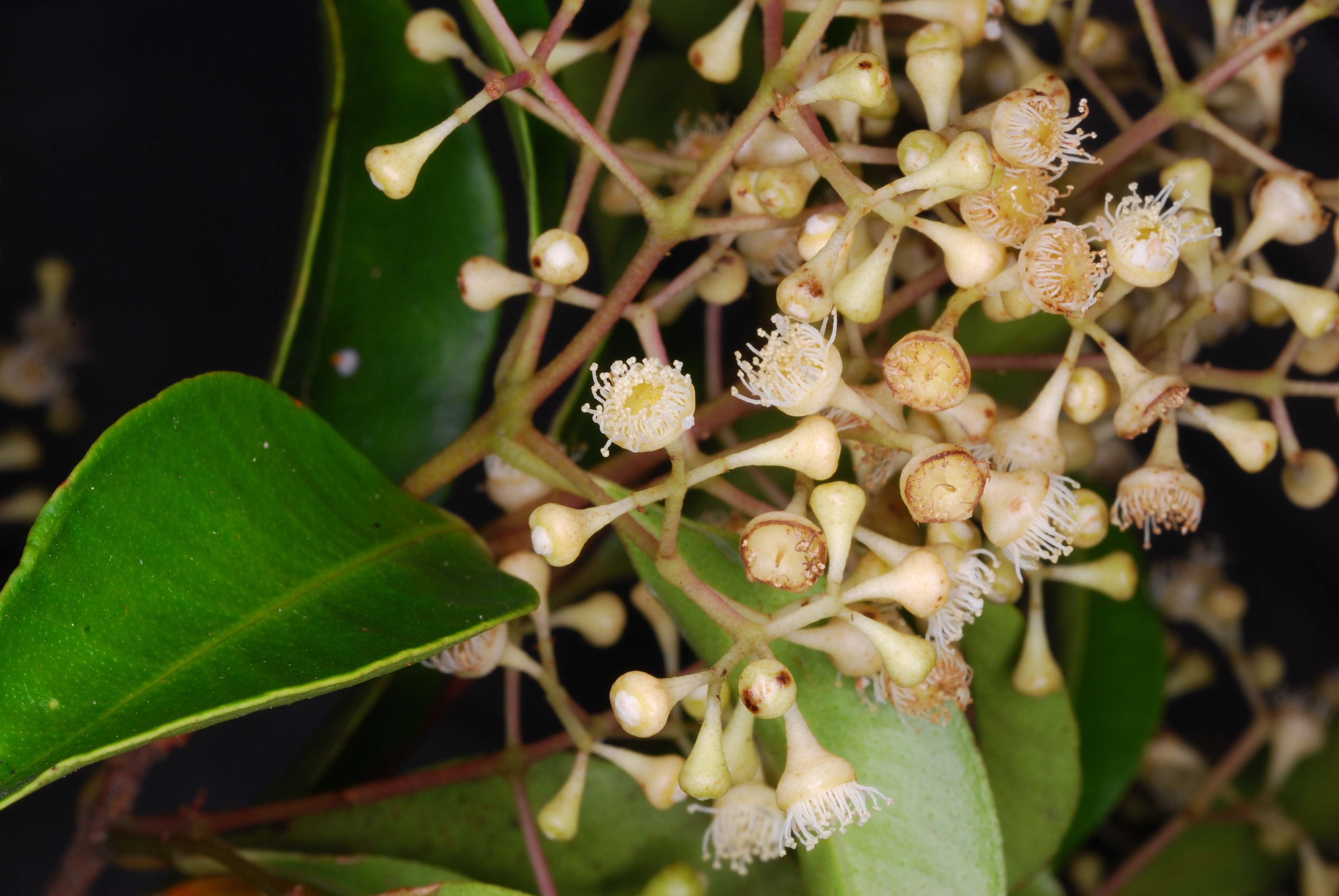 Syzygium smithii in peak bloom, photographed at Mount Keira, New South Wales, Australia, on 13th November 2015